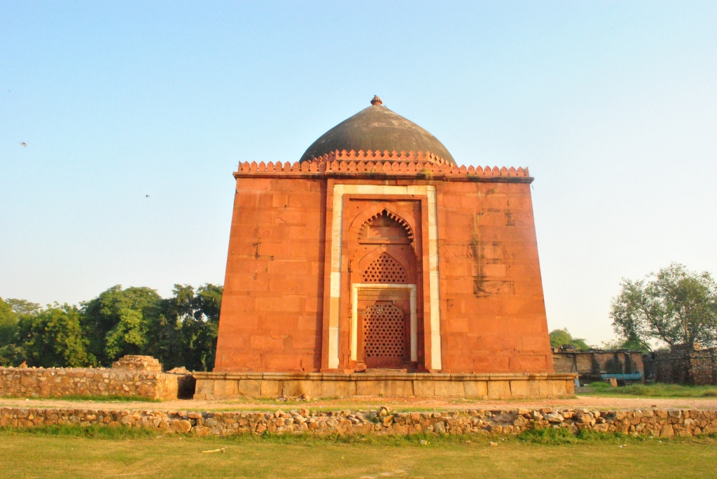 Lal Gumbad the name Is a legacy of the gold That ceases to remain Centered around the tomb of Shaikh Kabiru'd-Din Auliya Shaikh Raushan Chirag-I-Delhi his master When Sufism bloomed here and yonder.